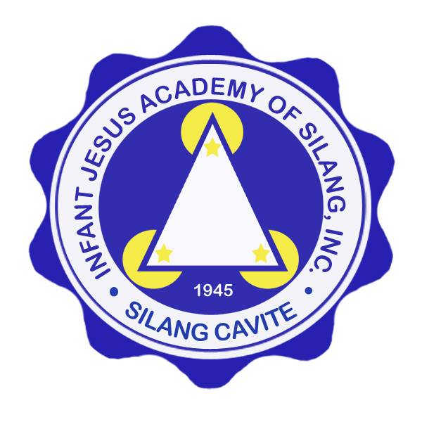 The Infant Jesus Academy (IJA) was established on June 4, 1945 by the Missionary Canonesses of St. Augustine now known as the Congregatio Immaculati Cordis Mariae. The missionary was formally invited by Fr. Michael Donoher, the former parish priest of Silang, Cavite. Fr. Michael believed that education is a good way of spreading the words of the Lord. When the people of Silang requested to the priest that they wanted to have a high school in their municipality after the Japanese invasion of the Philippines Fr. Michael convinced the nuns to run the first Catholic school in Silang. When the orphanage of the Infant Jesus in Tondo was destroyed, the orphanage transferred to Silang, Cavite by the invitation of the Parish Priest. With 100 orphans and five nuns they stayed at the old convent of Silang. The nuns were Mother Donatiana, Mother Leonce, Mother Adeltrude, Mother Estelle and Mother Damascene. The opening of the Infant Jesus Academy with first and second year high school was opened for both male and female students. In 1956, a building was constructed with four classrooms. It was followed by the second, third, and fourth buildings until it reached 34 classrooms, 3 counselling rooms, 2 laboratory rooms, 3 offices, a clinic, a faculty room, a chapel, 2 canteen and a library In the years 2005 to 2007, 2 fully air conditioned computer rooms were built, the so-called “little baguio” was transformed into a huge gymnasium that is being used for school activities and sports. During its 60th founding anniversary the ICM Sisters transferred the administration and the management to the Diocese of Imus. In 2008, a speech laboratory was built and in 2013 they celebrated the 68th anniversary of IJA.